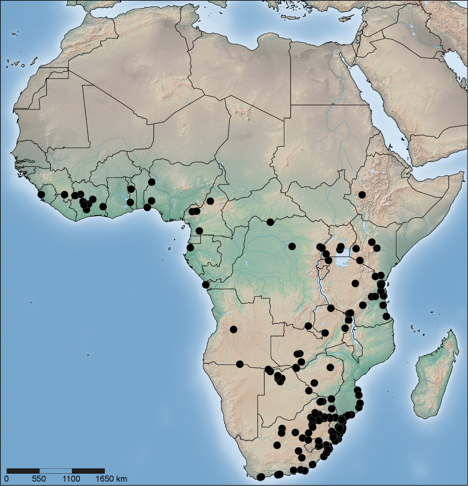 Distribution of Copa flavoplumosa Simon, 1885 in the Afrotropical Region.